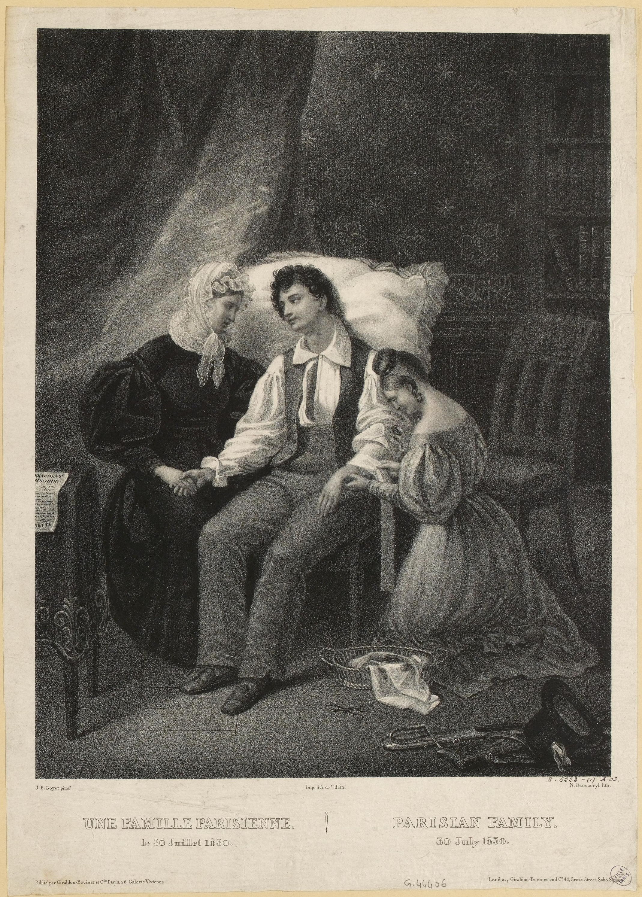 Jean-Baptiste Goyet, Une Famille Parisienne (le 30 Juillet 1830), 1830; lithograph by Narcisse-Edmond-Joseph Desmadryl of the painting by Goyet, part of a series depicting a Paris family during the July Revolution of 1830. Published by Giraldon-Bovinet et C.ie, 26, Galerie Vivienne—London, Giraldon-Bovinet and C°, 44, Greek Street, Soho Square. In the collection of the Musée Carnavalet, Histoire de Paris.